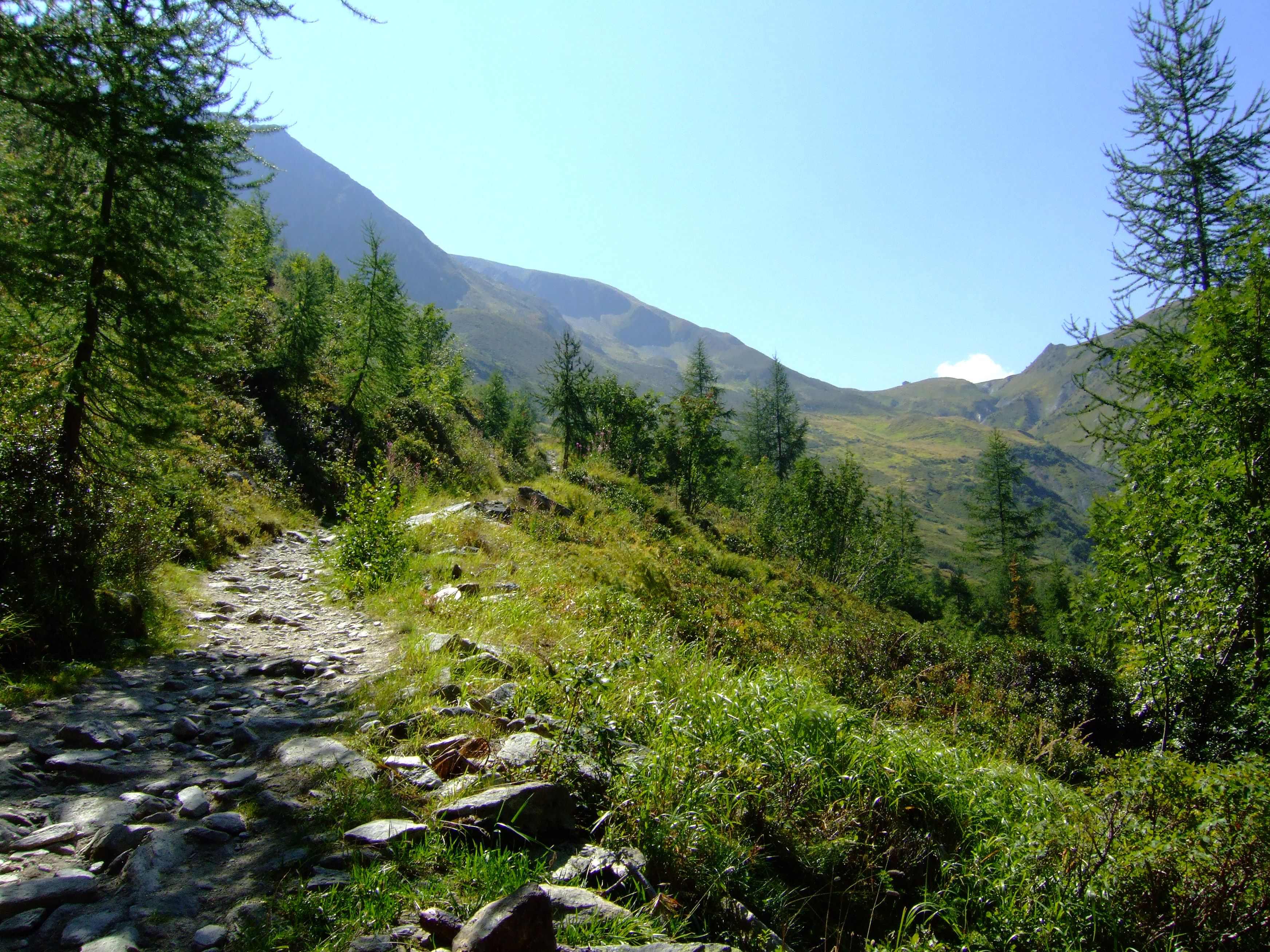 View Col de Balme 2195 meters (border between France and Switzerland).Photo was taken on the road between Les Herbagères and Trient (Switzerland).